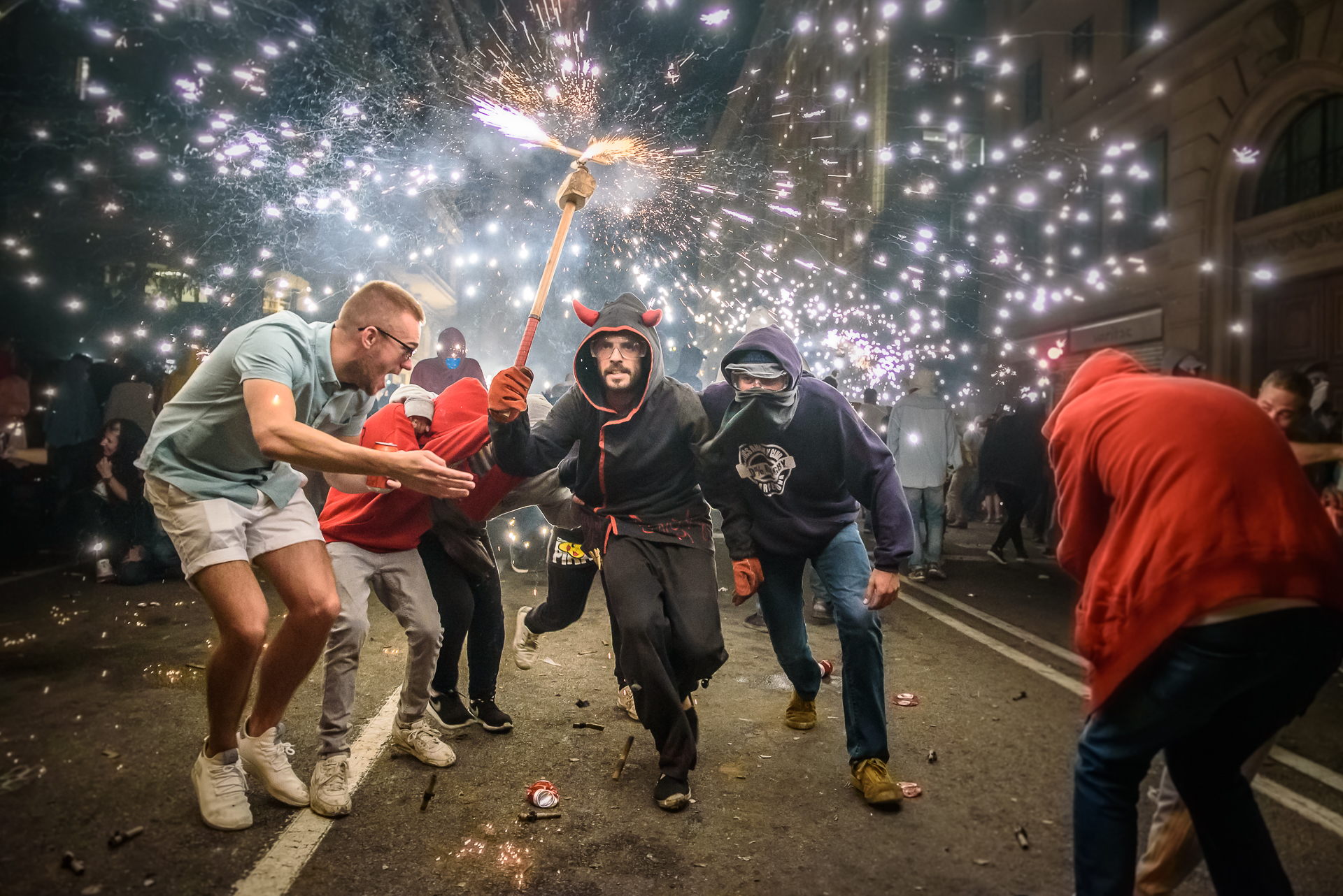 This is a photography of a Folklore festival in Spain (Wikidata id Q3181317).